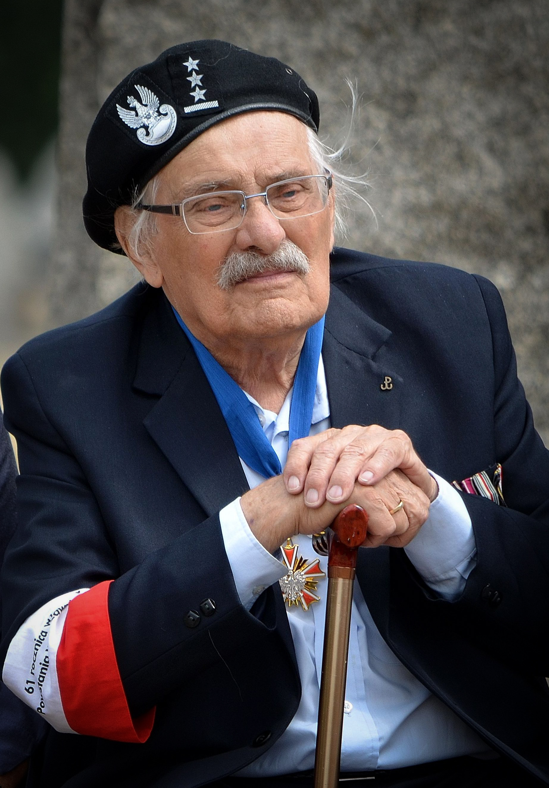 Ada and Samuel Willenberg. 70th anniversary of the revolt in Treblinka death camp at Treblinka